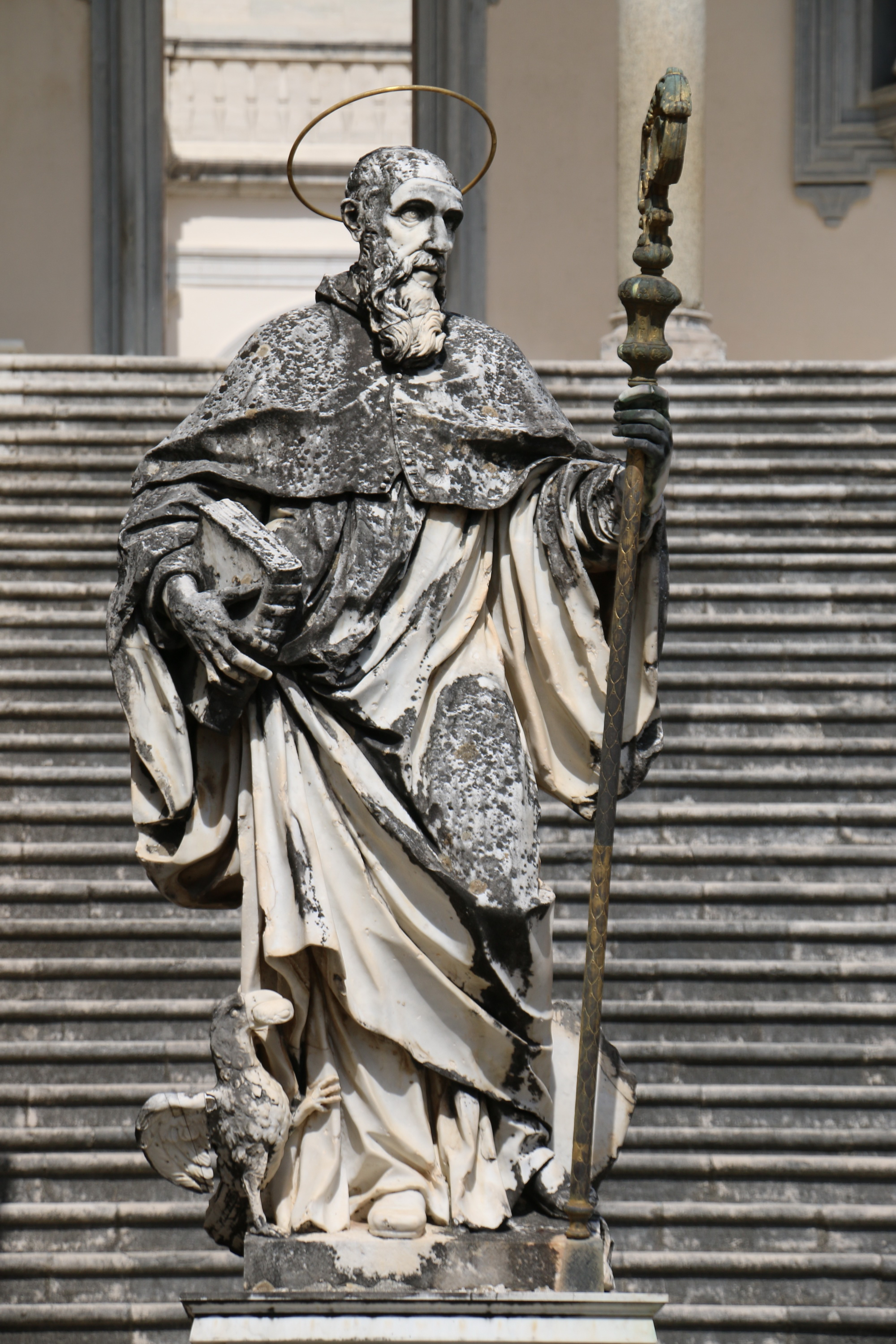 Abbey of Monte Cassino Native nameAbbazia di MontecassinoLocationMontecassino, Lazio, ItalyCoordinates41° 29′ 29″ N, 13° 48′ 52″ E Authority control VIAF: 223343083 LCCN: n80001255 GND: 1002981-3 SUDOC: 030113083 BNF: 12159420j WorldCat